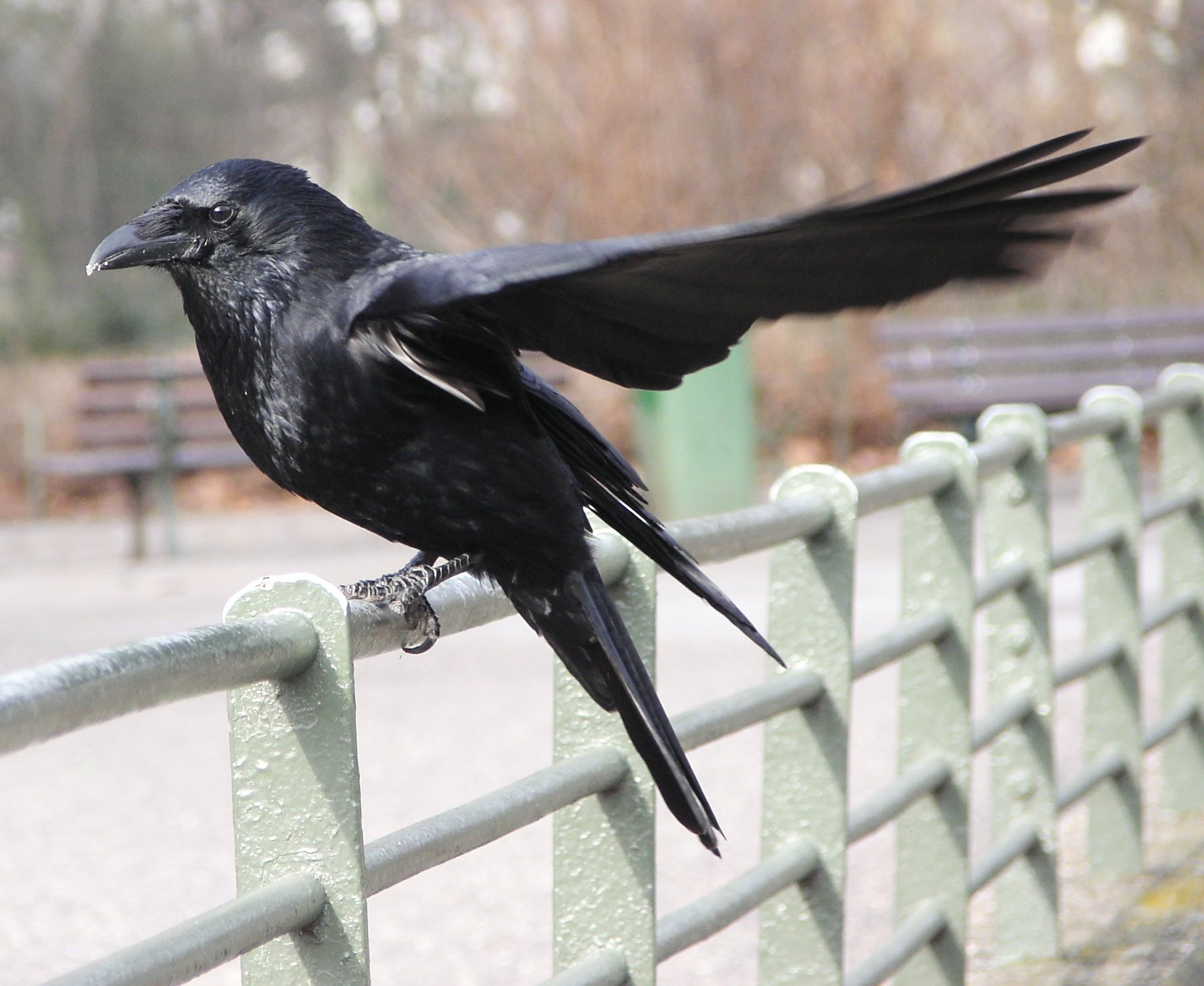 Corvus corone corone in Cologne Zoo, Germany.